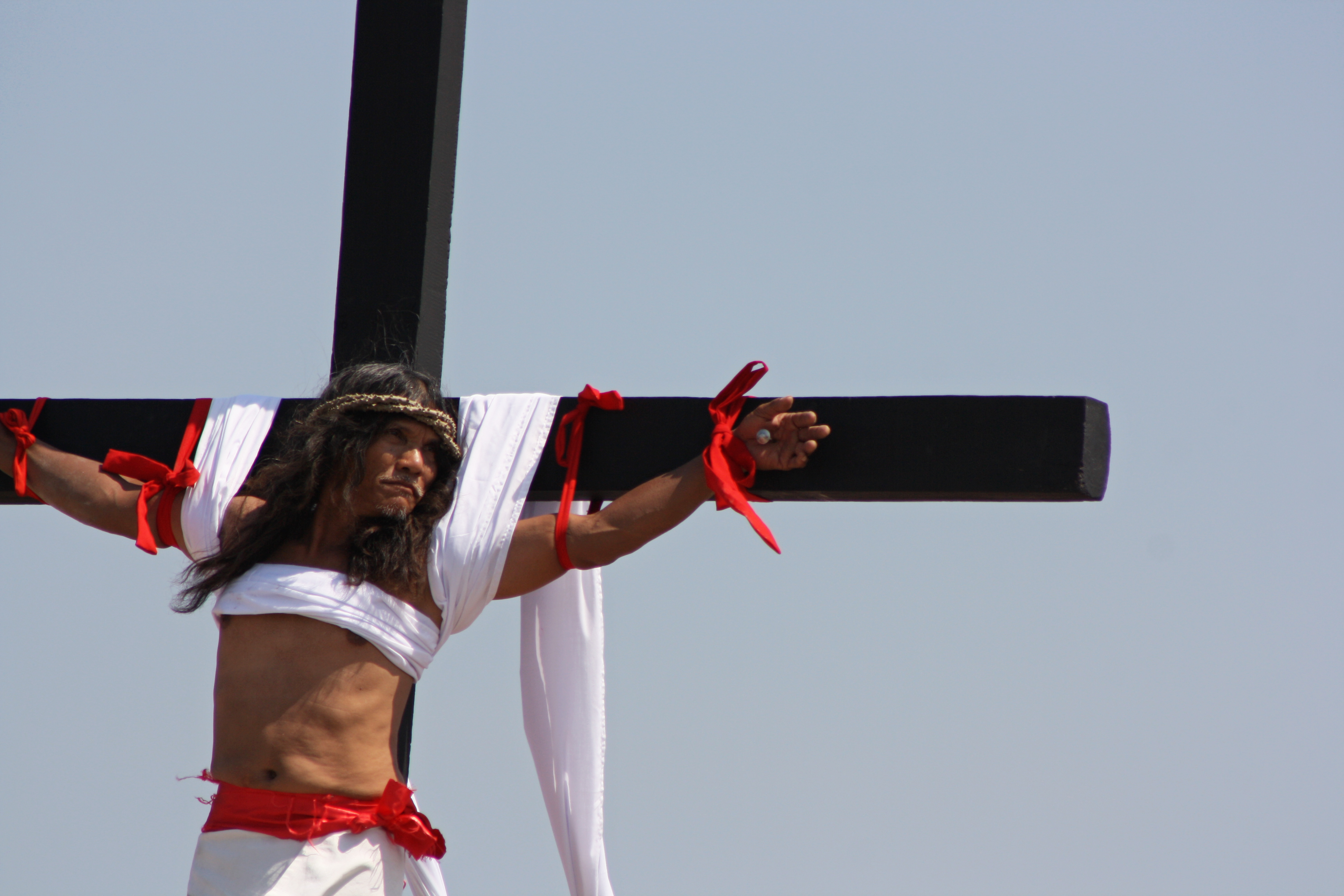 Good Friday observance in Barangay (barrio) San Pedro Cutud, in San Fernando, Pampanga, Philippines. During this annual tradition of faith of Kapampangan Catholic Devotees people remember the suffering and crucifixion of Jesus Christ. Although the modern Catholic church now discourages this act of hurting themselves, many penitents called "magdarame" carry wooden crosses, crawl on rough pavement, and slash their backs before whipping themselves to draw blood. This is done to ask for forgiveness of sins, to fulfill vows (panata), or to express gratitude for favors granted. The event also includes a reenactment of Christ's crucifixion. This part of the day featured 55-year-old Ruben “Mang Ben Kristo” Enaje, playing the role of Jesus Christ. This year is Mang Ben’s 25th year of crucifixion and according to him, this might be his last year and he is looking for the right person who will replace him despite the numbers of the potential candidates are many because he believe that the person must possess good characteristics and sincerity.